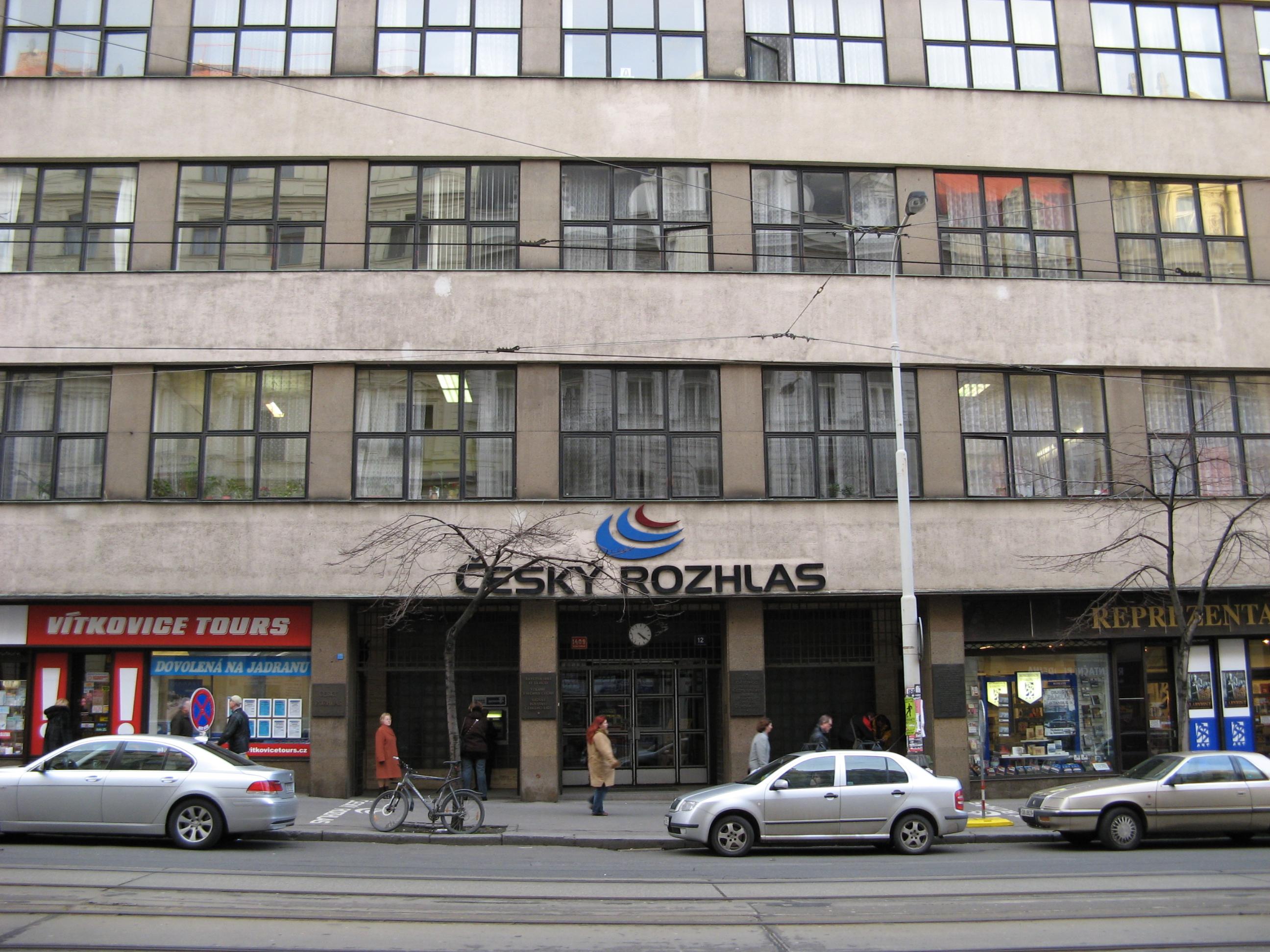 Building of the Czech public radio "Český rozhlas" (Czech Radio), Vinohradská street in Prague